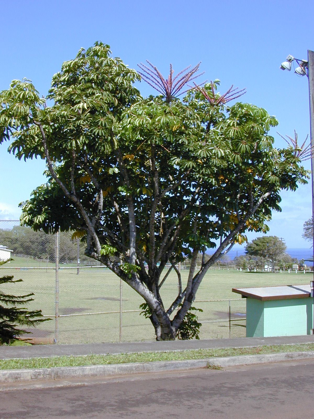 Schefflera actinophylla (habit). Location: Maui, Haiku